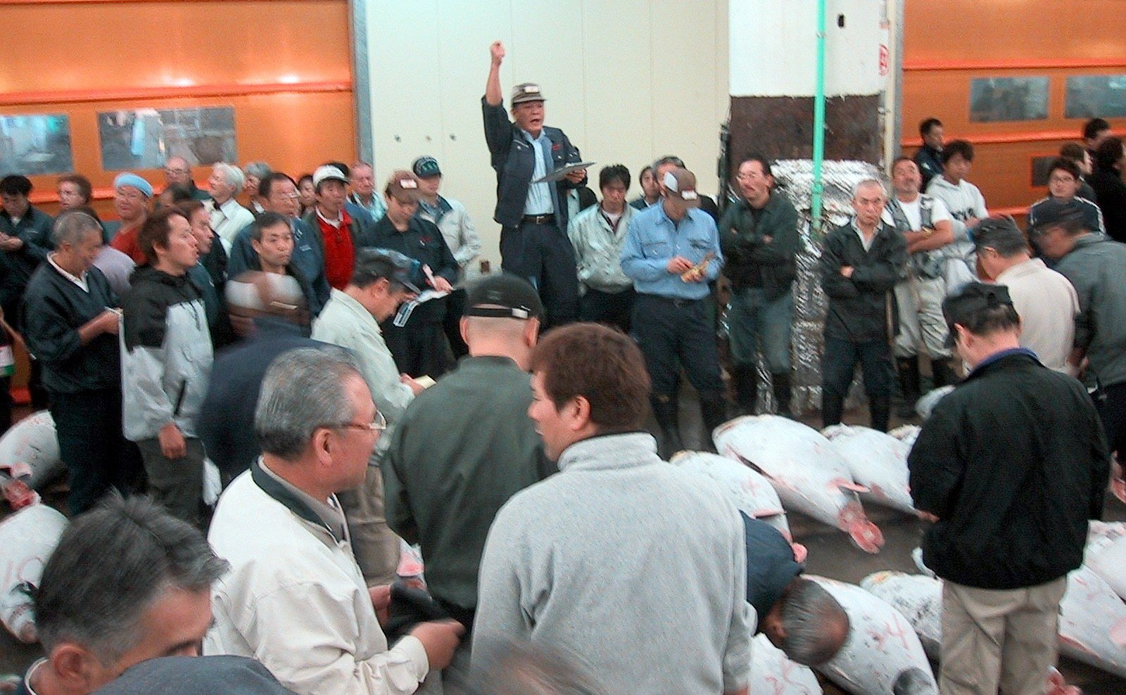 Tuna auction at the Tsukiji fishmarket, around 6:00 AM.